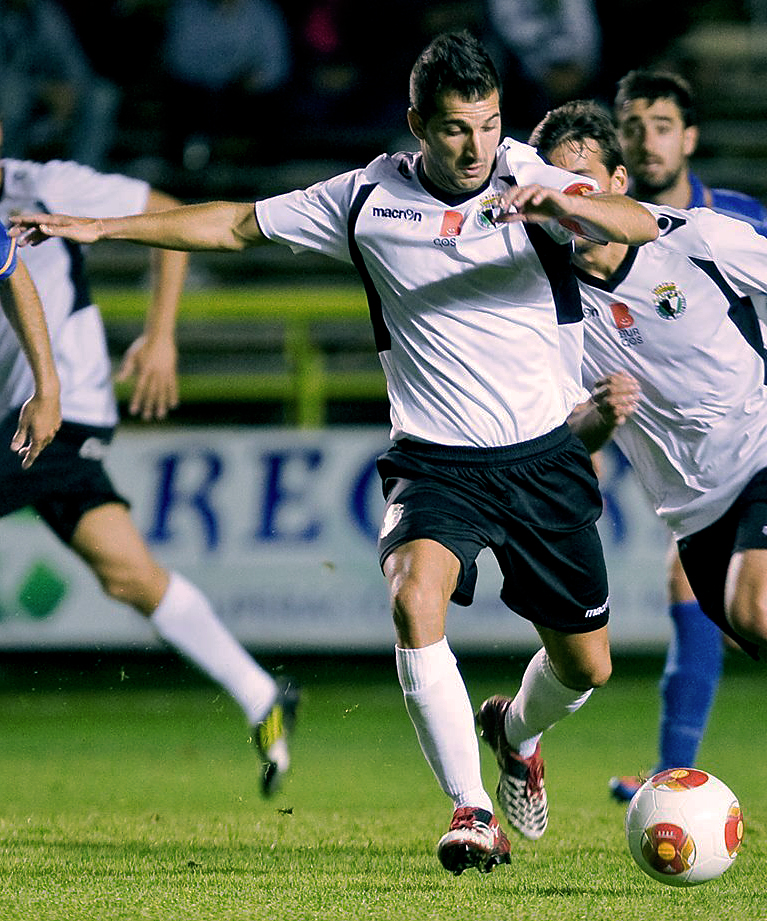 fernando carralero jugador del burgos cf